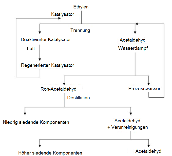 Two step Wacker process block diagram